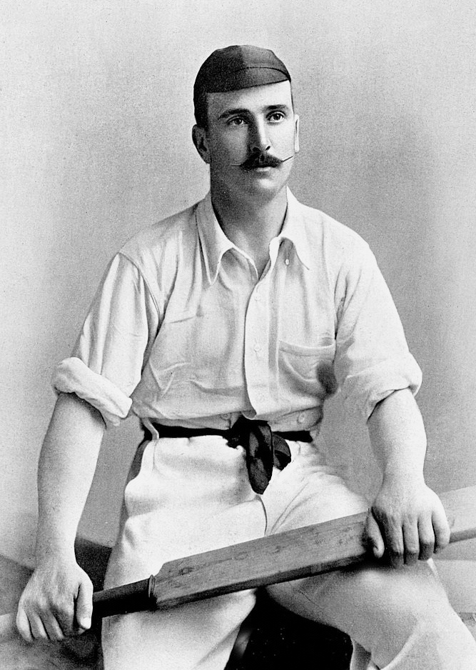 Sport, Cricket, Circa 1895, Walter Troup played for Gloucestershire from 1887-1911